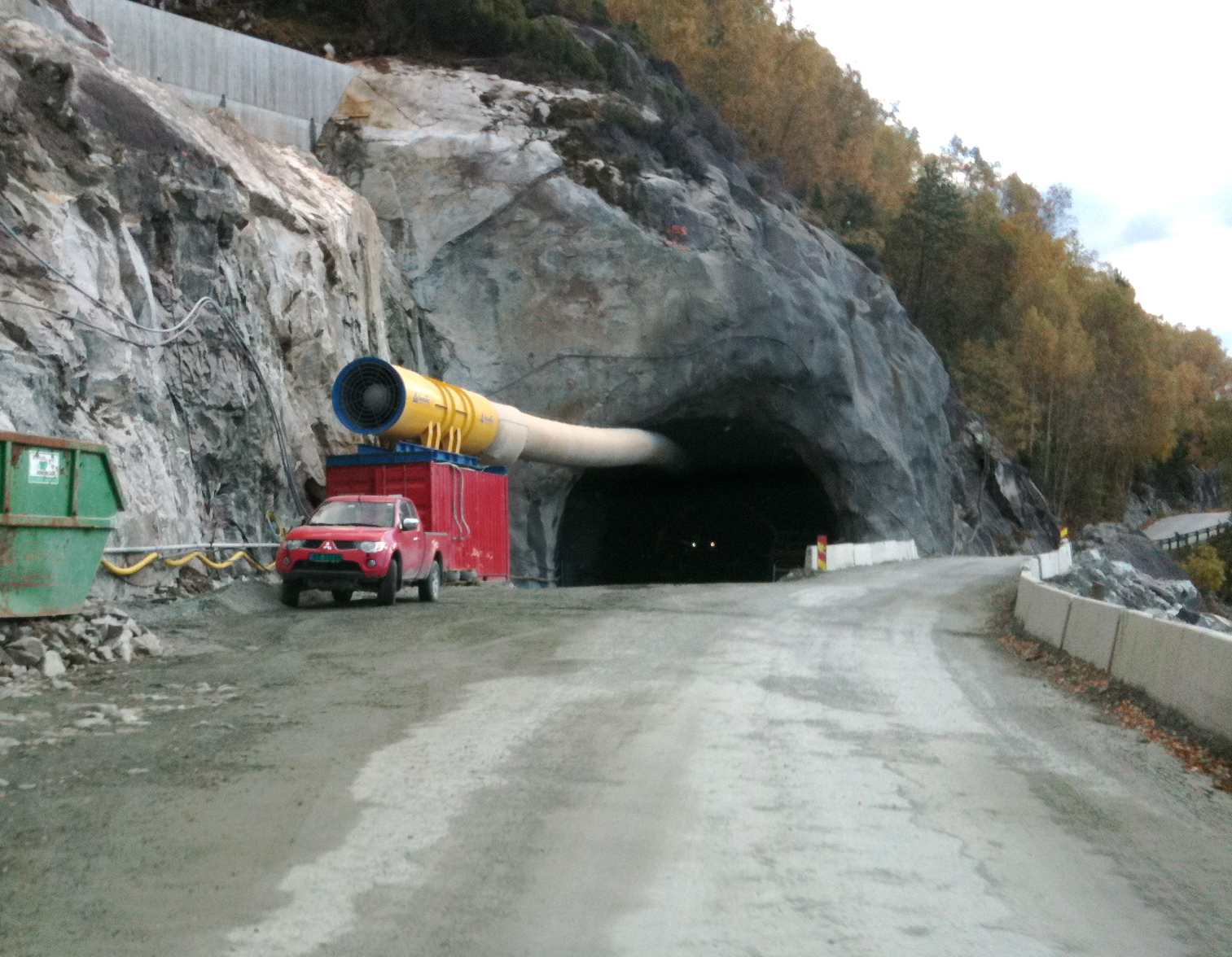 Construction work at Norwegian national road 13 in Erfjord, Suldal in Rogaland, Norway